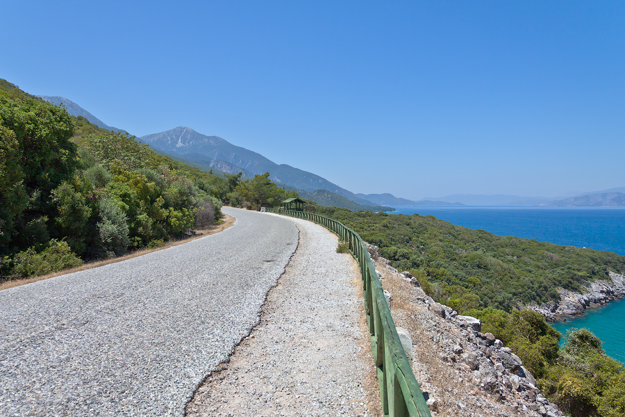 road along Dilek Peninsula